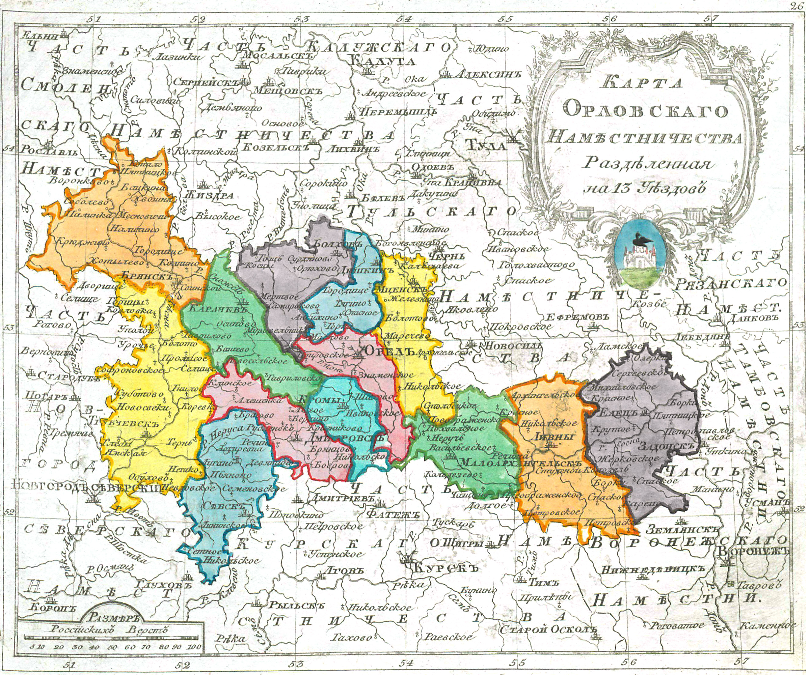 Small atlas of the Russian Empire (1792). Map of Oryol Namestnichestvo (map 25).